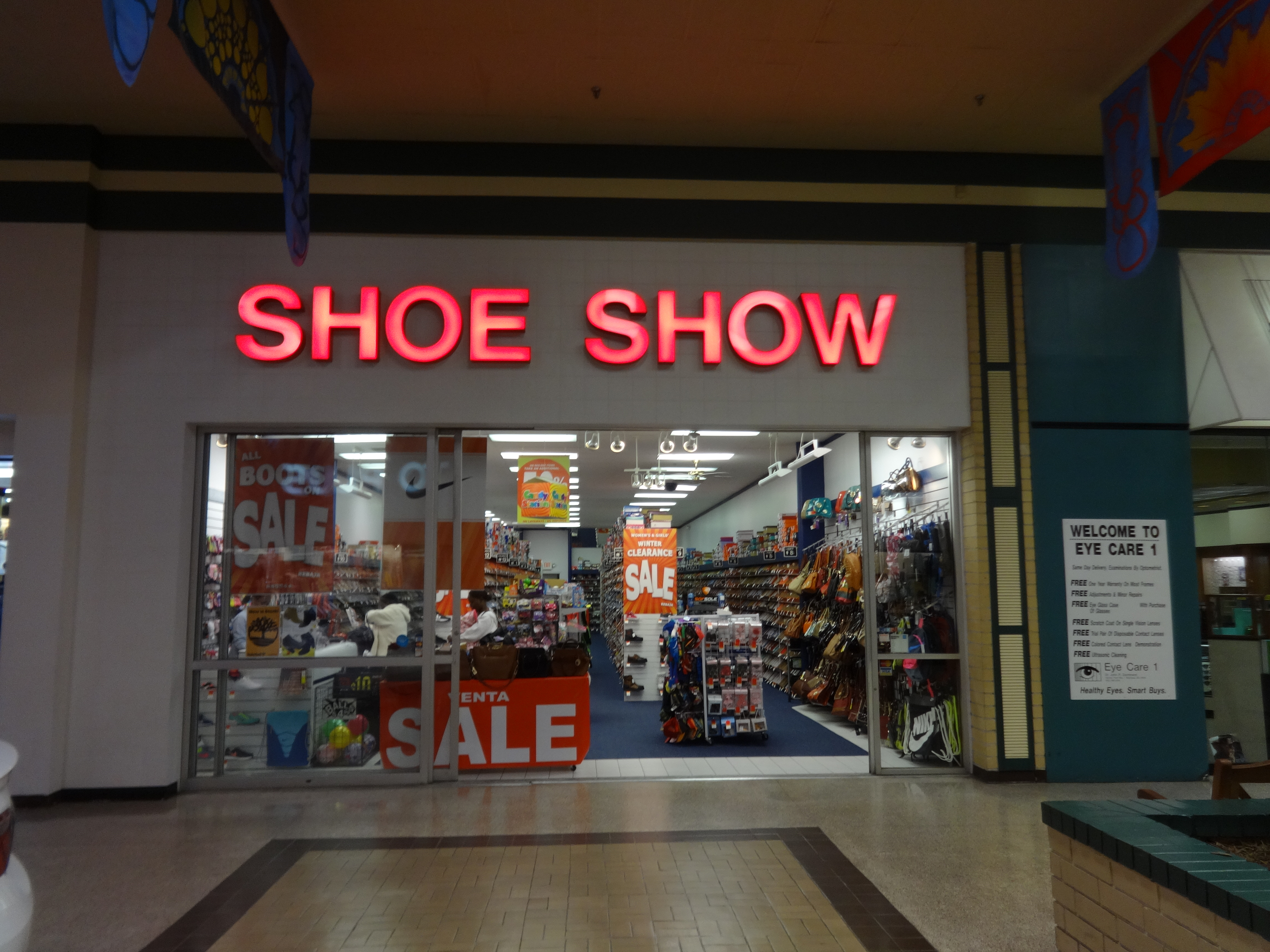 Shoe Show, The Mall at Waycross, Waycross, Ware County, Georgia